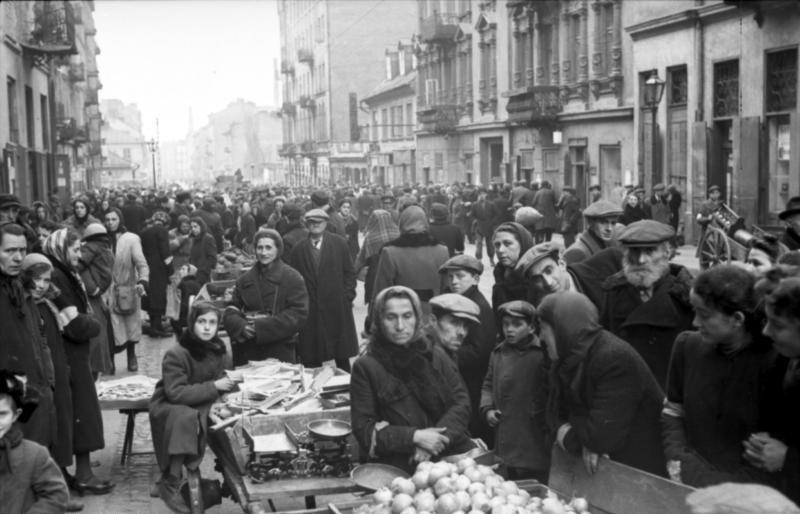 Warsaw Ghetto: Smocza street viewed from Pawia Street looking North.